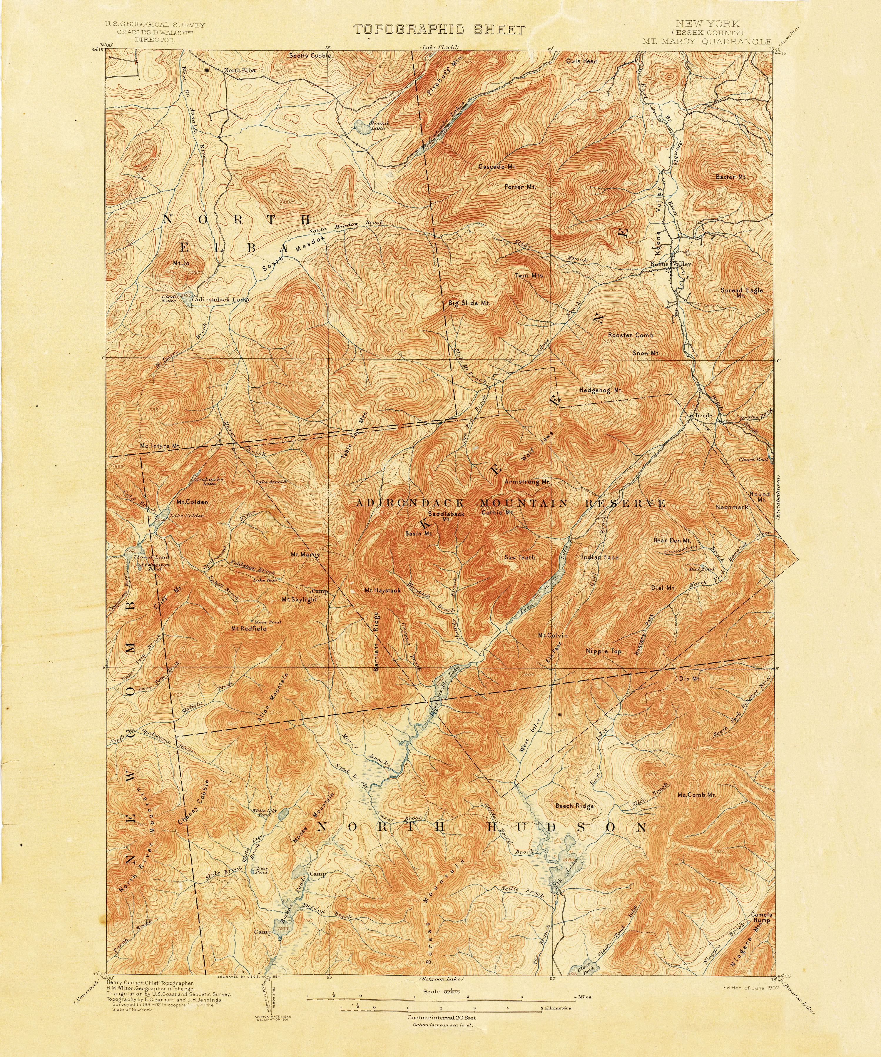 Old United States Geological Survey quad map of the Adirondacks in NY State; image of this topographical quadrangle map retrieved from archive at Old Book Art website.